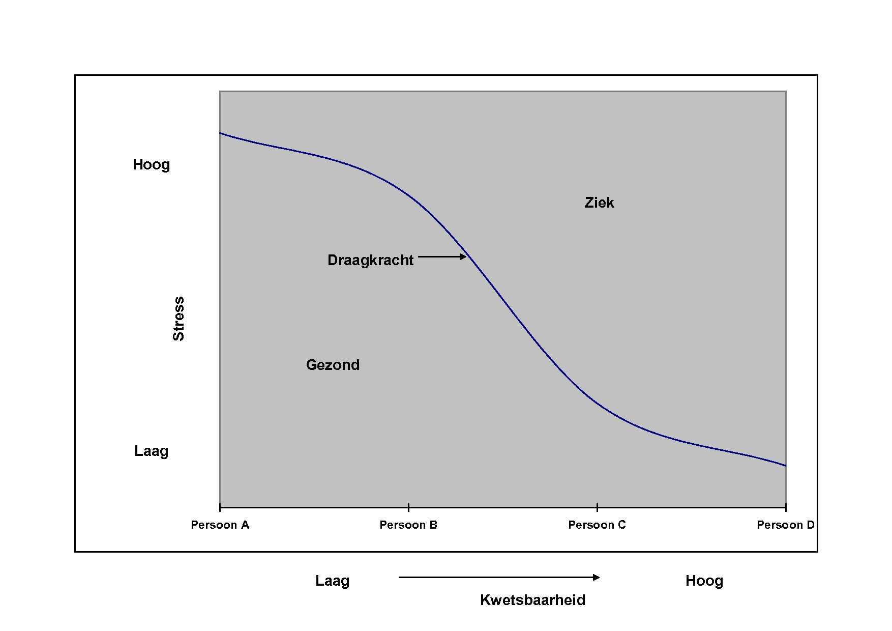 Vulnerability-stress model